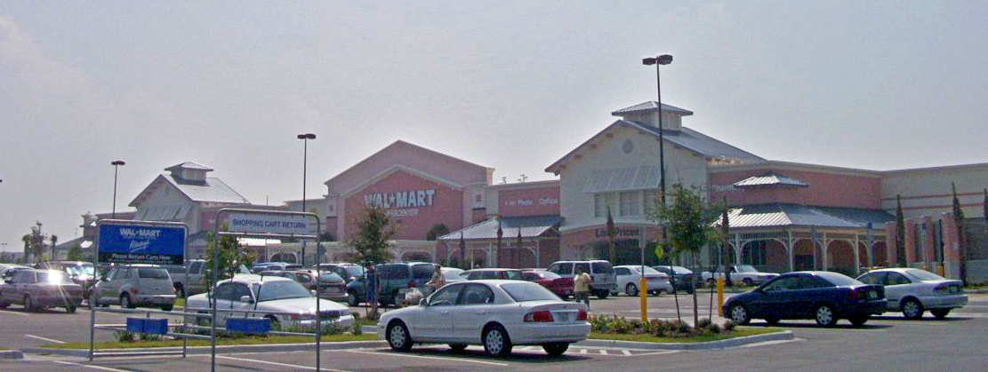 Taken in 2005, a pink Wal-Mart store in Palm Bay. Palm Bay requires new construction to conform to Key West-style vernacular architecture.